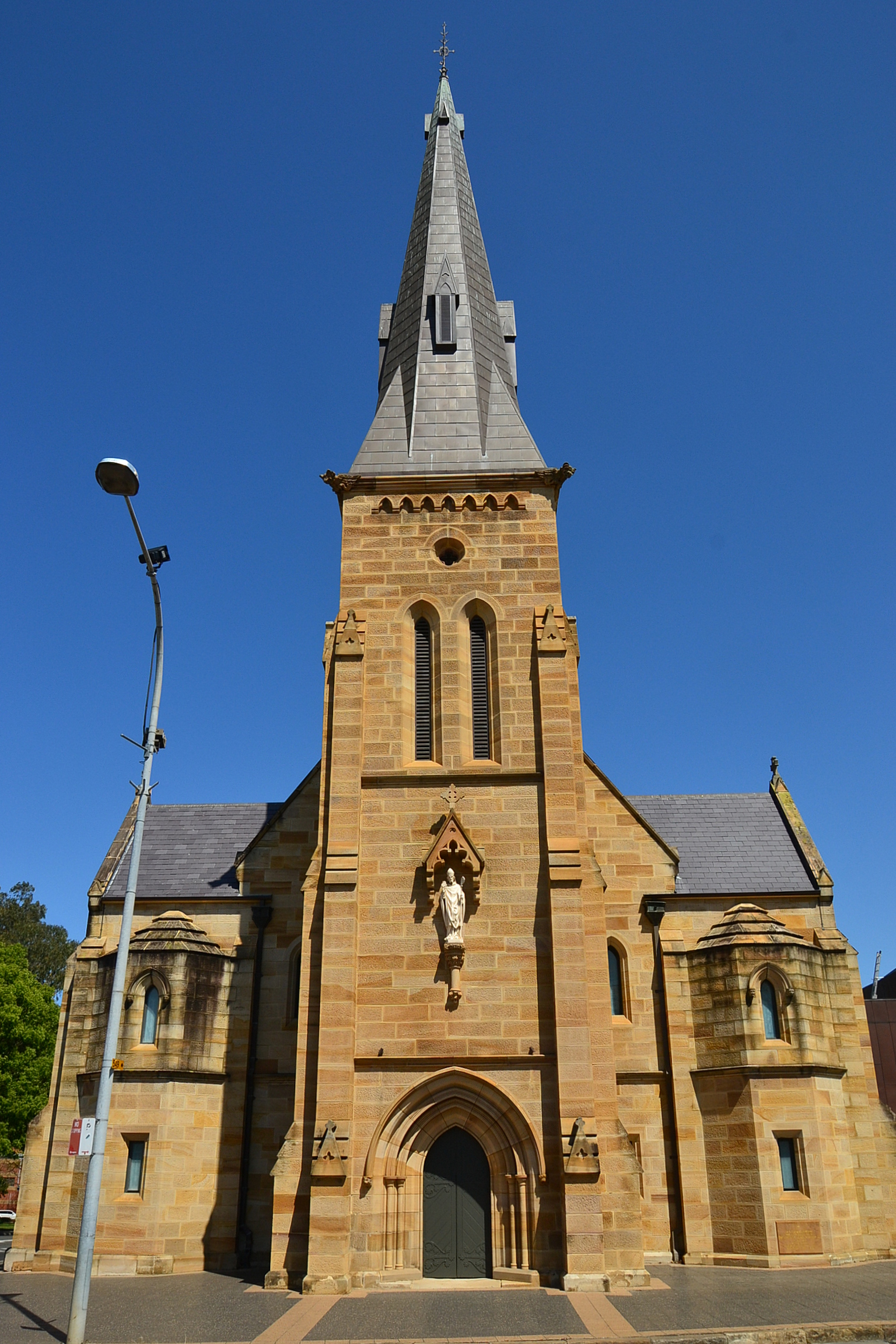 St Patricks, Parramatta, Sydney